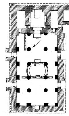 Church 6 at Hira according to D. Talbot Rice, ‘Arte Cristiana in Asia', in: Giuseppe Tucci (ed.), Le civiltà dell'Oriente. Storia, letteratura, religioni, filosofia, scienze e arte , vol. IV, Roma: Gherardo Casini 1962, p. 441 fig. 7.